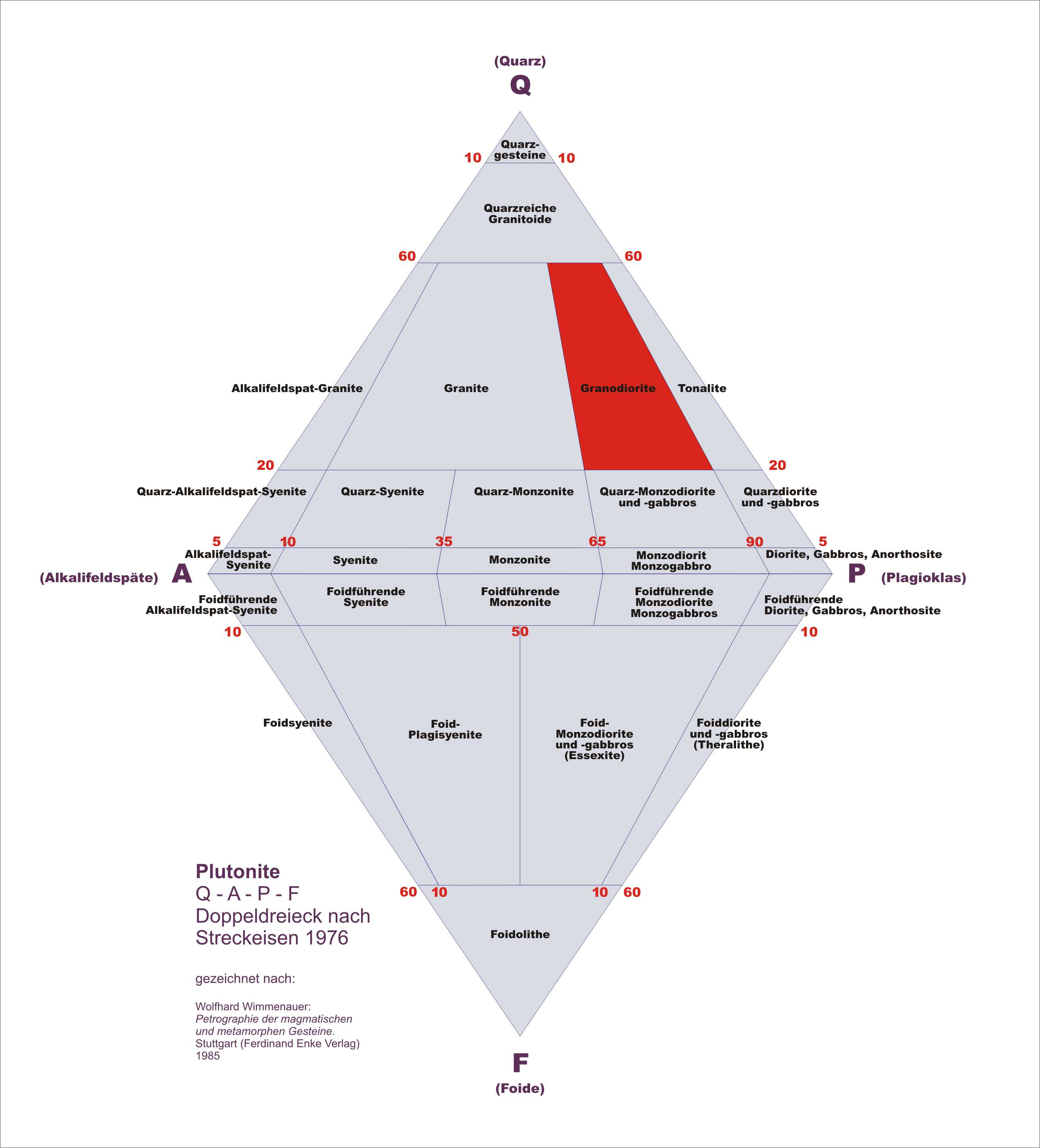 QAPF diagram (Granodiorite)